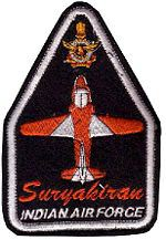 Surya Kiran Aerobatic Team, Indian Air Force, AF Stn Bidar